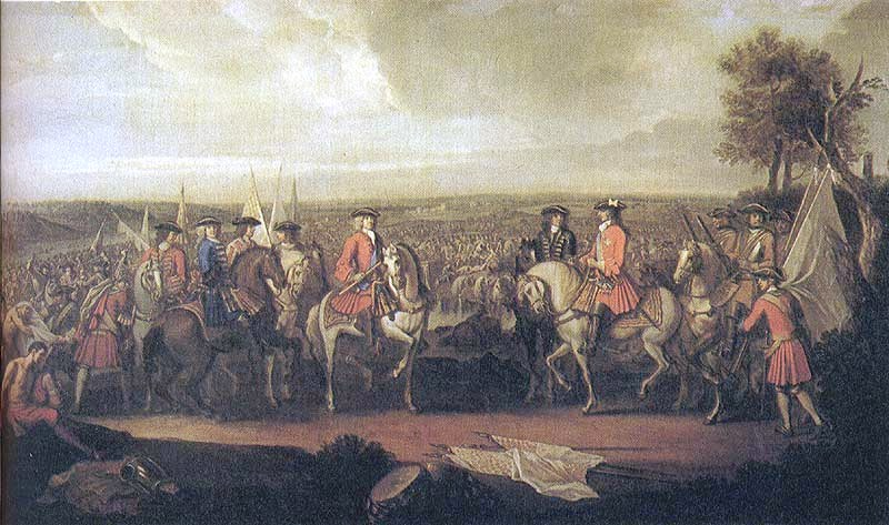 Marshal Tallard, the French commander, surrendering to the Duke of Marlborough at Blenheim.